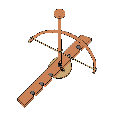 Bow Drill